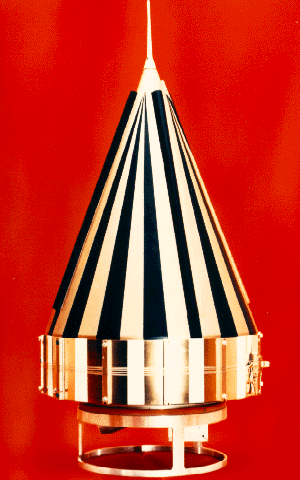 Pioneer 3 & 4